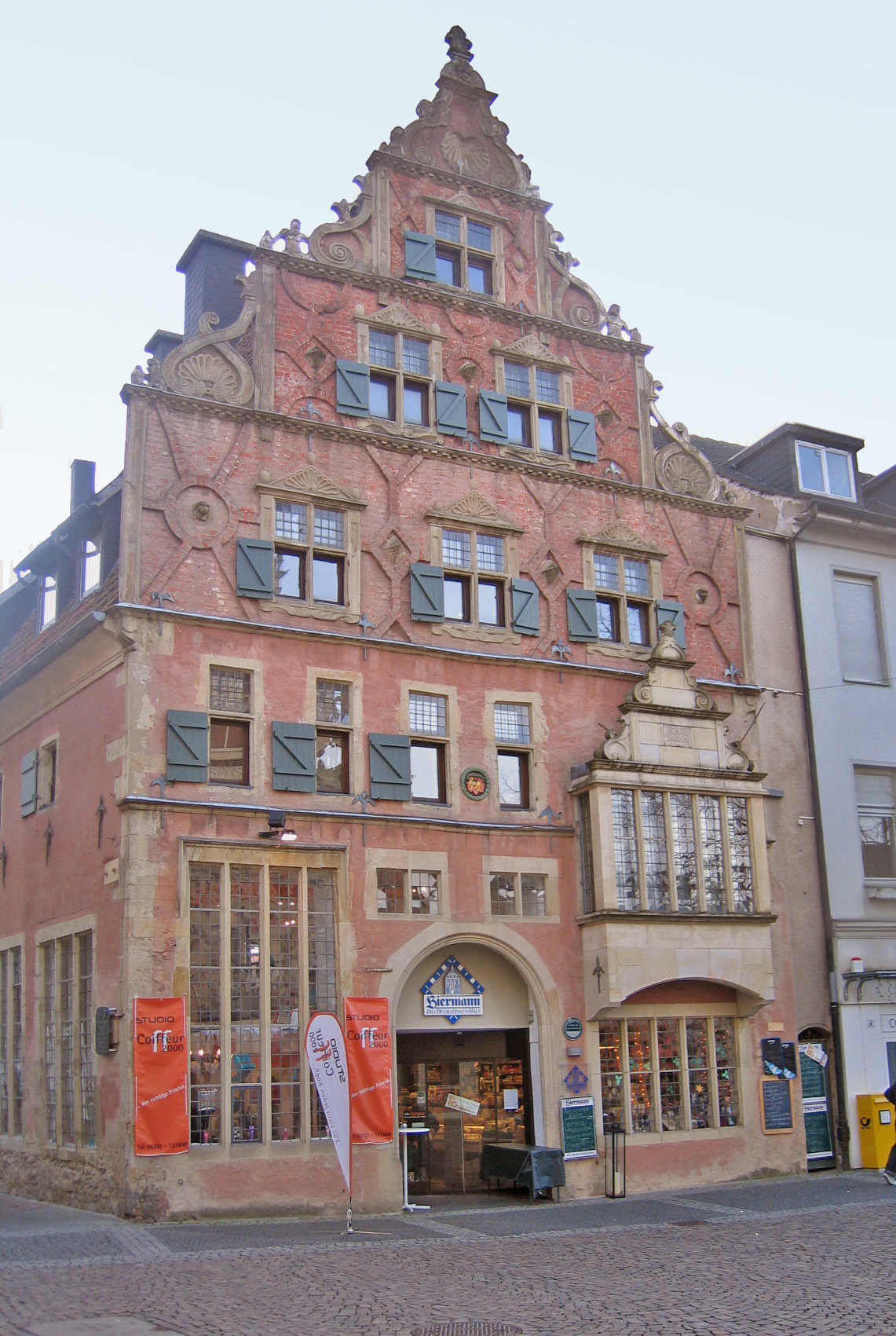 Wulfert house in Herford, District of Herford, North Rhine-Westphalia, Germany.